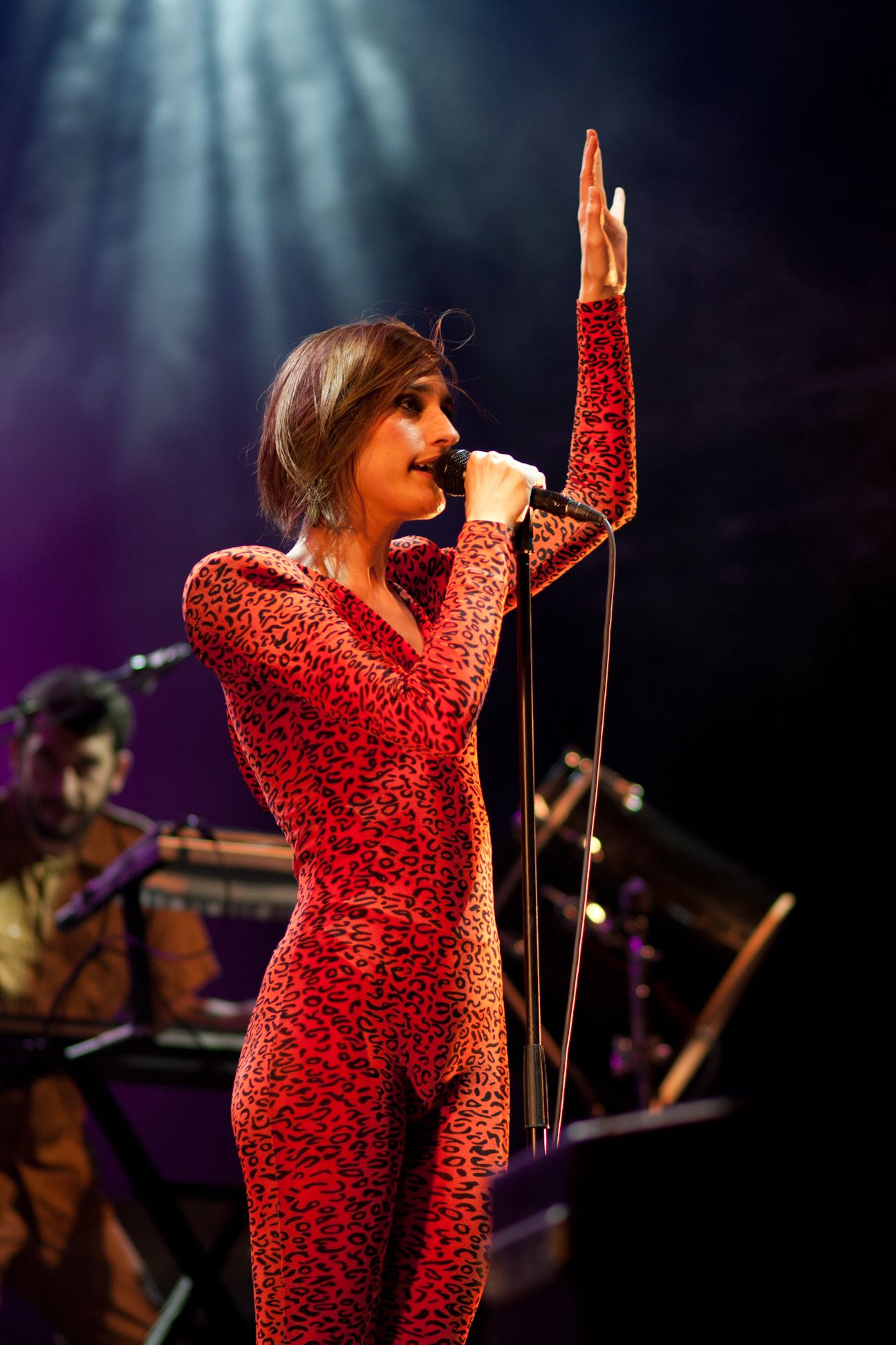 Follow me on facebook Twitter : @didyPhotography All the photographies I've made are now under CC0 (Creative Commons Zero) CC0 - learn more To the extent possible under law, Eddy BERTHIER has waived all copyright and related or neighboring rights to Yelle @ BSF 2011. This work is published from: France.